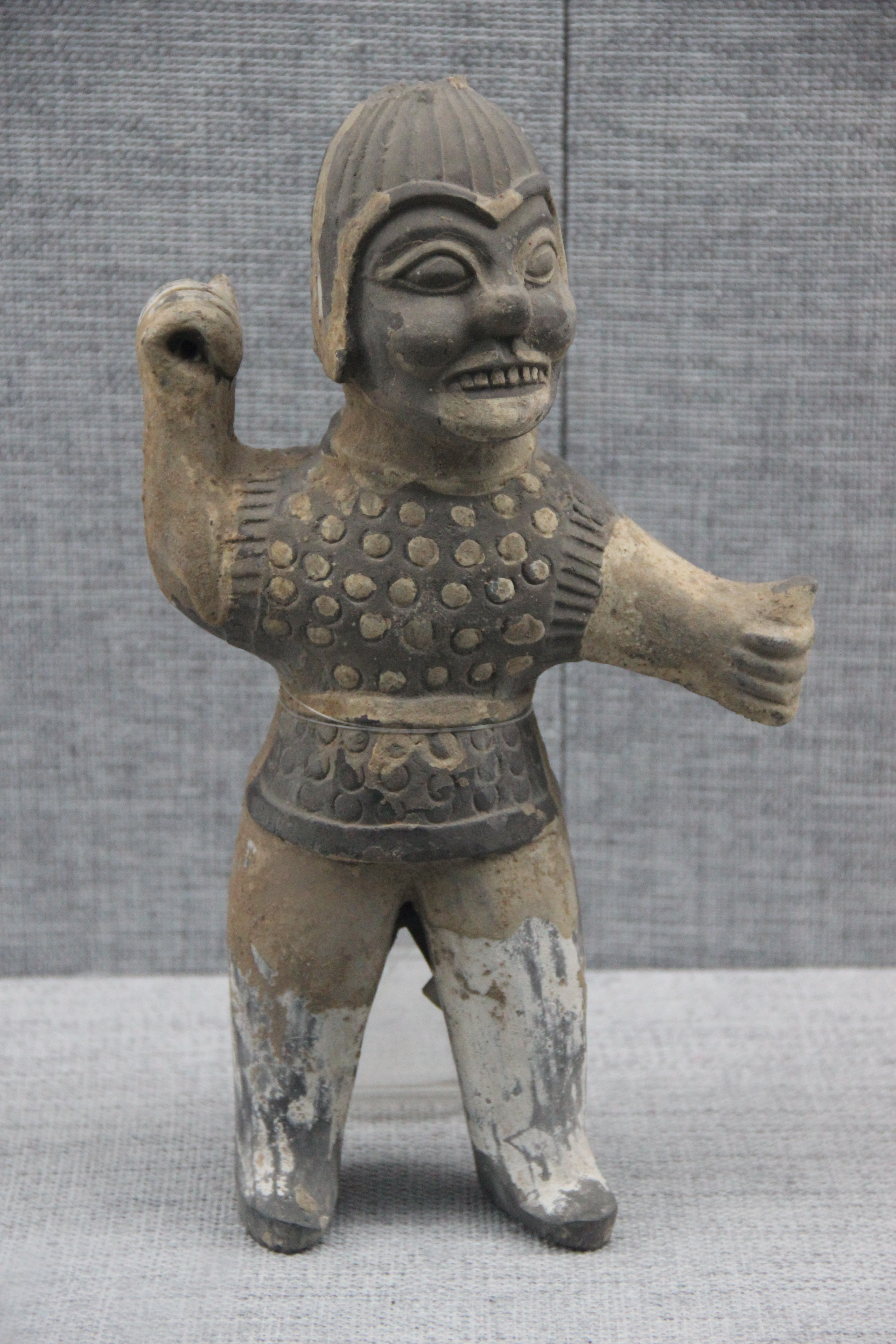 Northern & Southern Dynasties Pottery Warrior